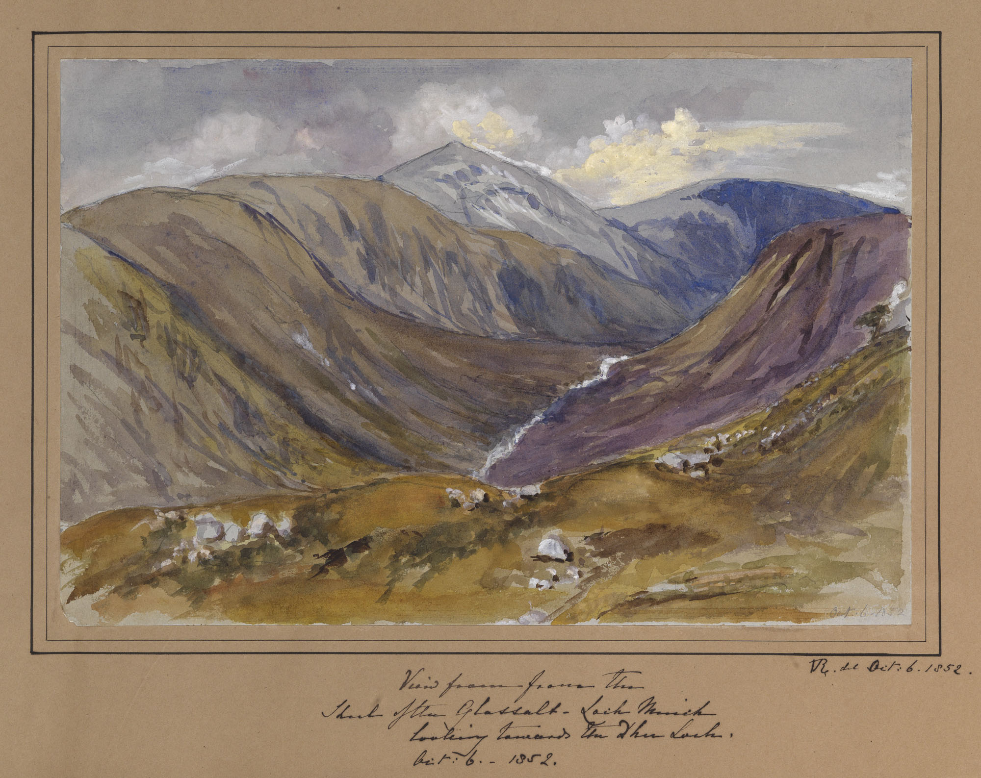 Queen Victoria, Queen of the United Kingdom (1819-1901) View from the Shiel of the Glassalt dated 6 Oct 1862 Pencil, watercolour, bodycolour | RCIN 980055.ce A watercolour showing a view of the Allt-an-Dubh Loch flowing through the Highland hills around Loch Muick. Inscribed below pasted down sheet: View from the Shiel of the Glassalt. Loch Muick looking towards the Dhu [sic] Loch. Oct: 6 - 1852. Inscribed lower right: VR. del Oct: 6. 1852. While staying at Balmoral, Queen Victoria made many expeditions to local beauty spots. On 6 October 1852, the Queen walked to the Glas-allt Shiel with her Lady of the Bedchamber, Charlotte, Viscountess Canning. Queen Victoria records the expedition in her journal entry of that day describing how, on arriving at the shiel, they "sketched there for nearly an hour & ½".